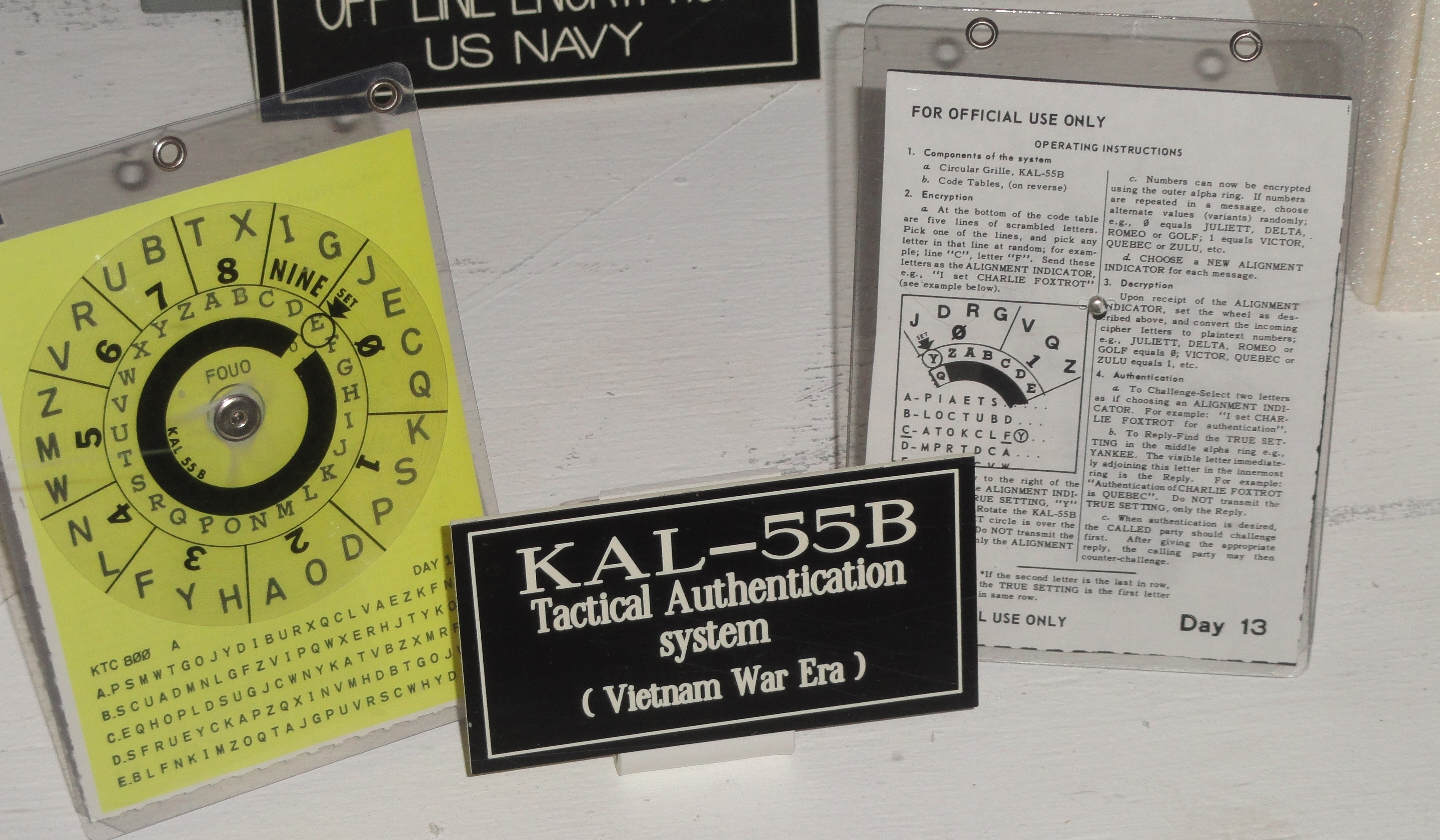 Exhibit in the National Cryptologic Museum, Fort Meade, Maryland, USA. All items in this museum are unclassified; items created by the United States Government are not subject to copyright restrictions.